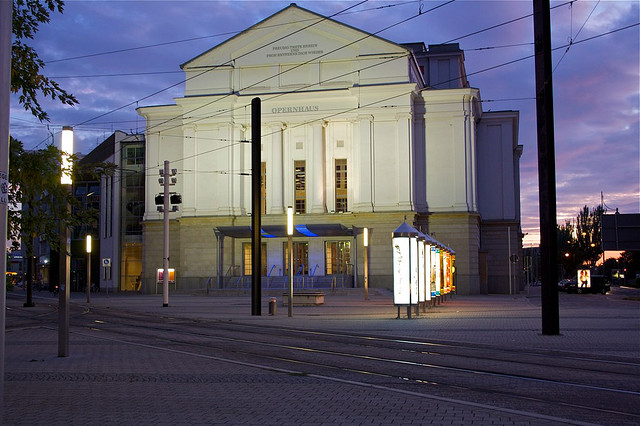 Theater Magdeburg